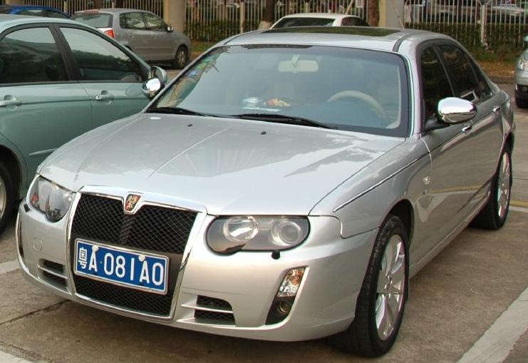 Roewe 750 (cropped by uploader)